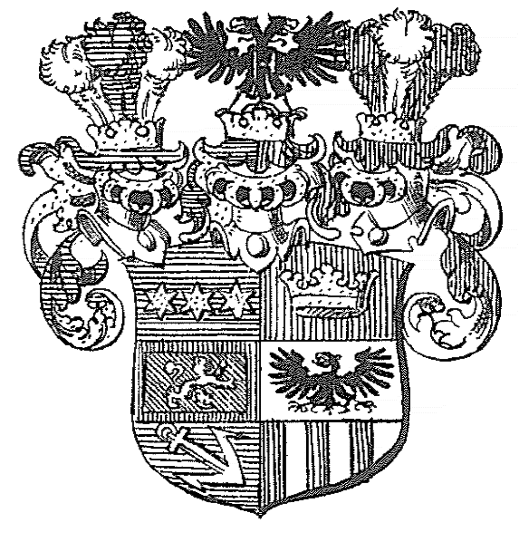 Coat of arms of canonry Count Giannini.